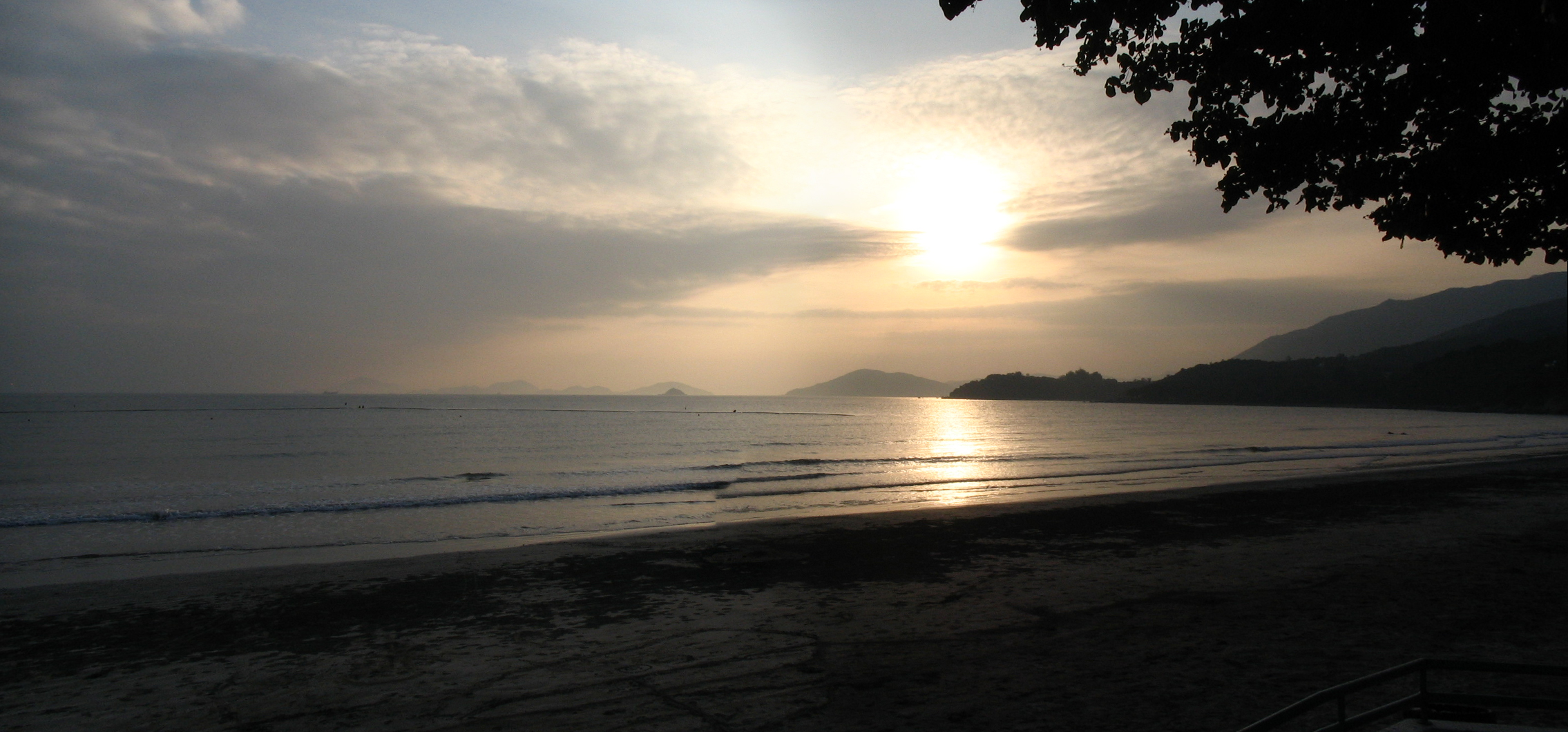 Panoramic photo of Pui O, combined from 2040331806 and 2040332086